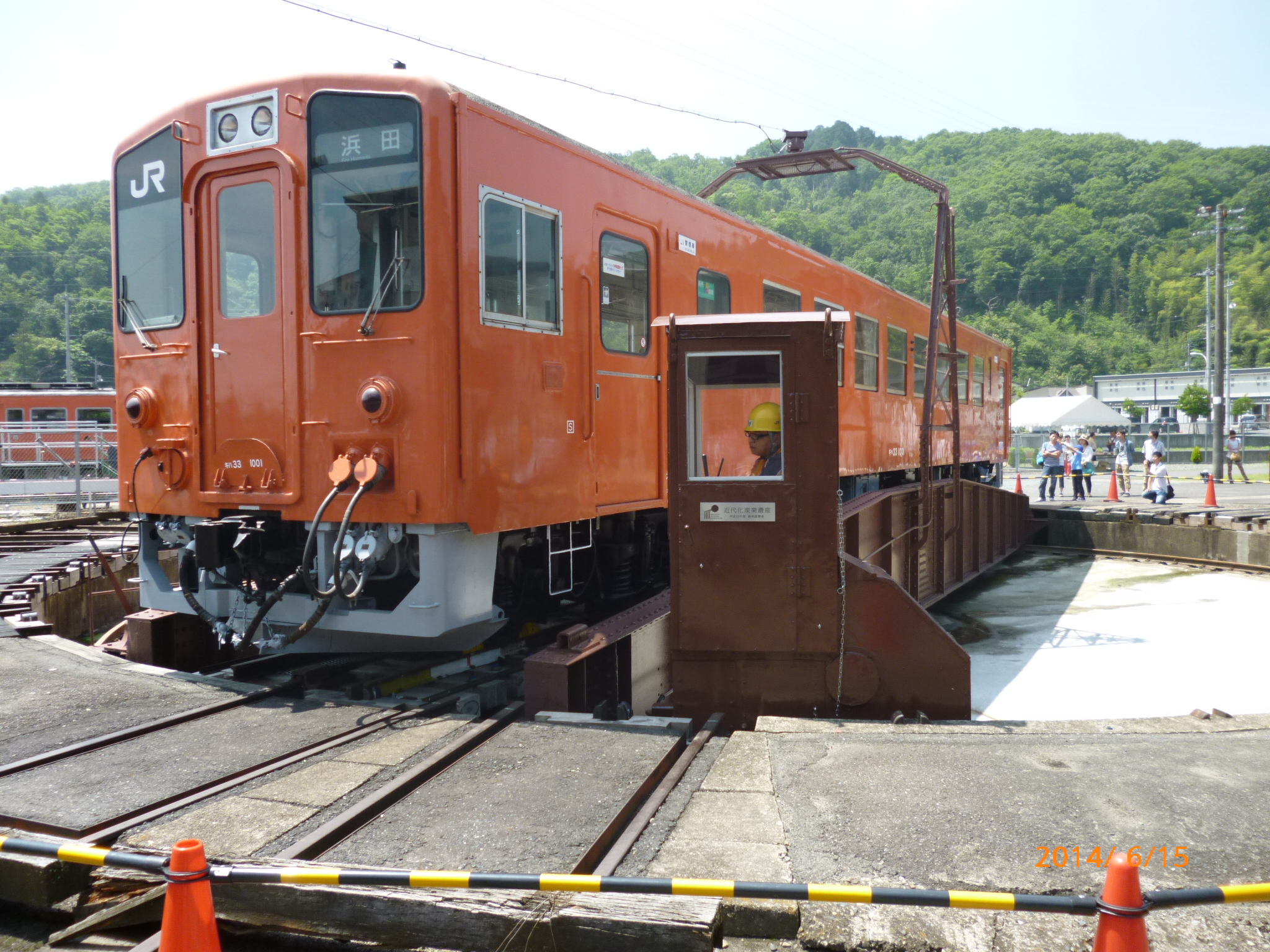 Preserved former JR West KiHa 33 series DMU car KiHa 33-1001 on the turntable at the Tsuyama depot roundhouse in Okayama Prefecture (now part of the Tsuyama Railroad Educational Museum collection)